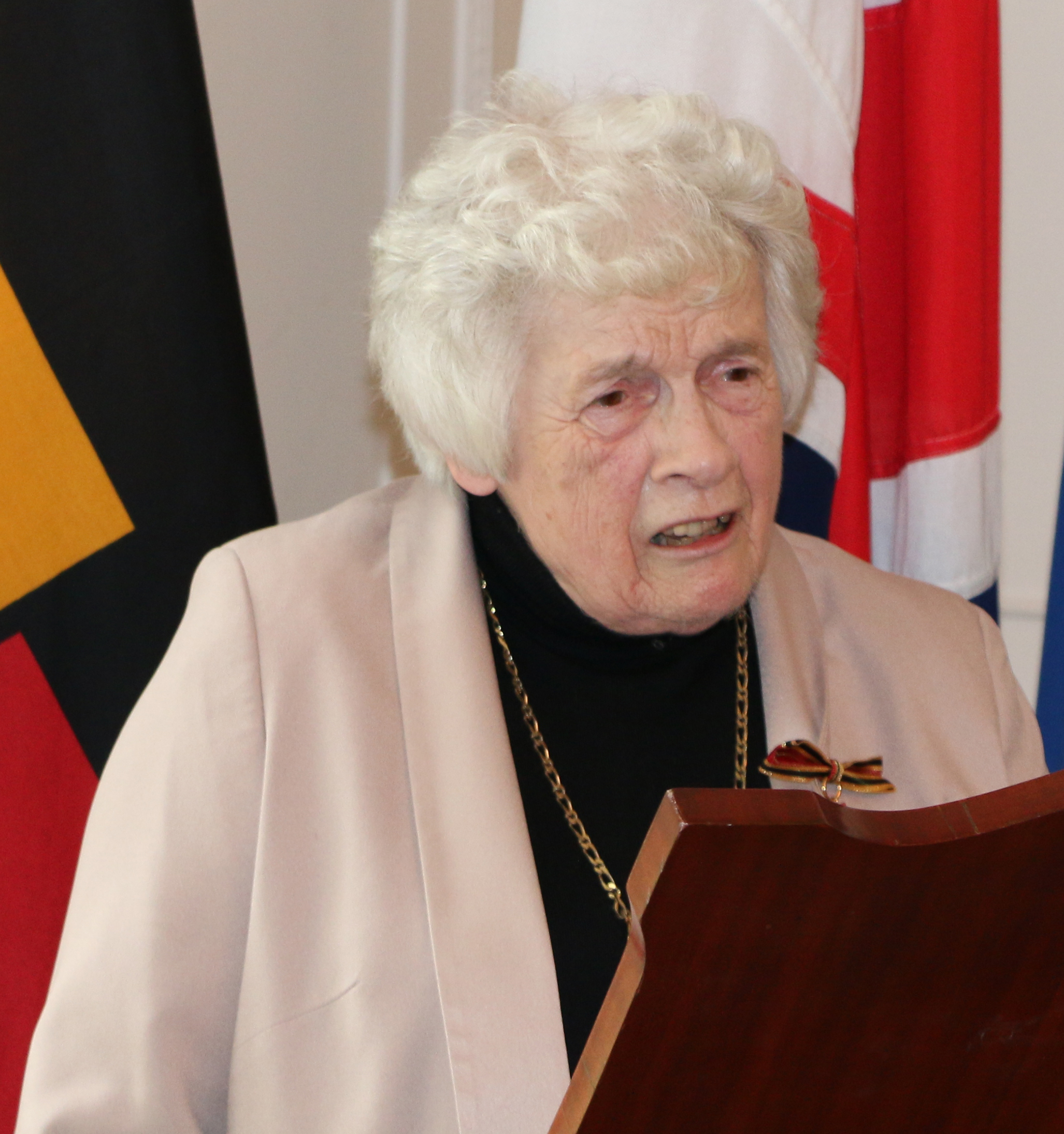 Anthea Bell receives Cross of the Order of Merit of the Federal Republic of Germany, 29 January 2015